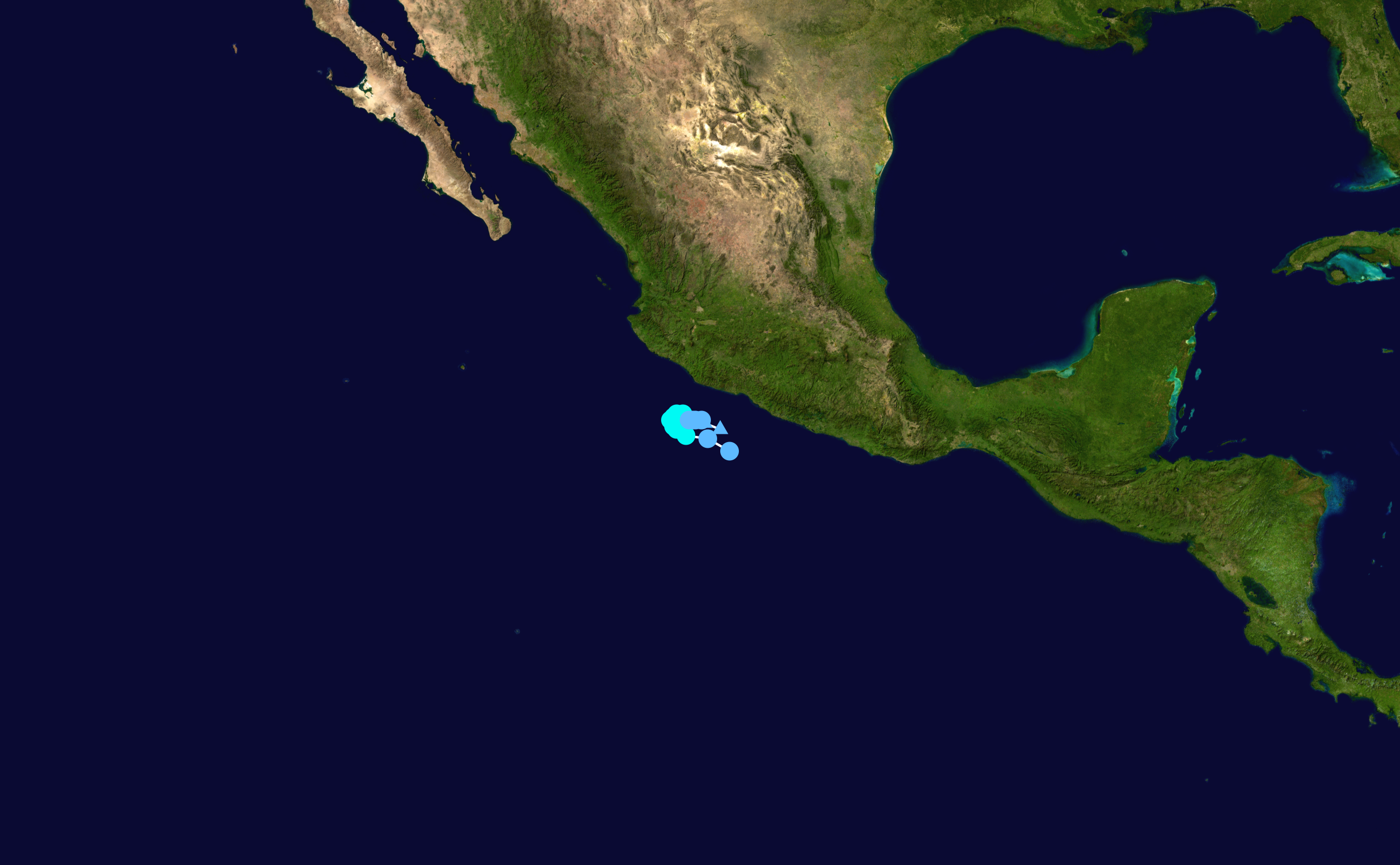 Tropical Storm Boris (2002) track. Uses the color scheme from the Saffir-Simpson Hurricane Scale.